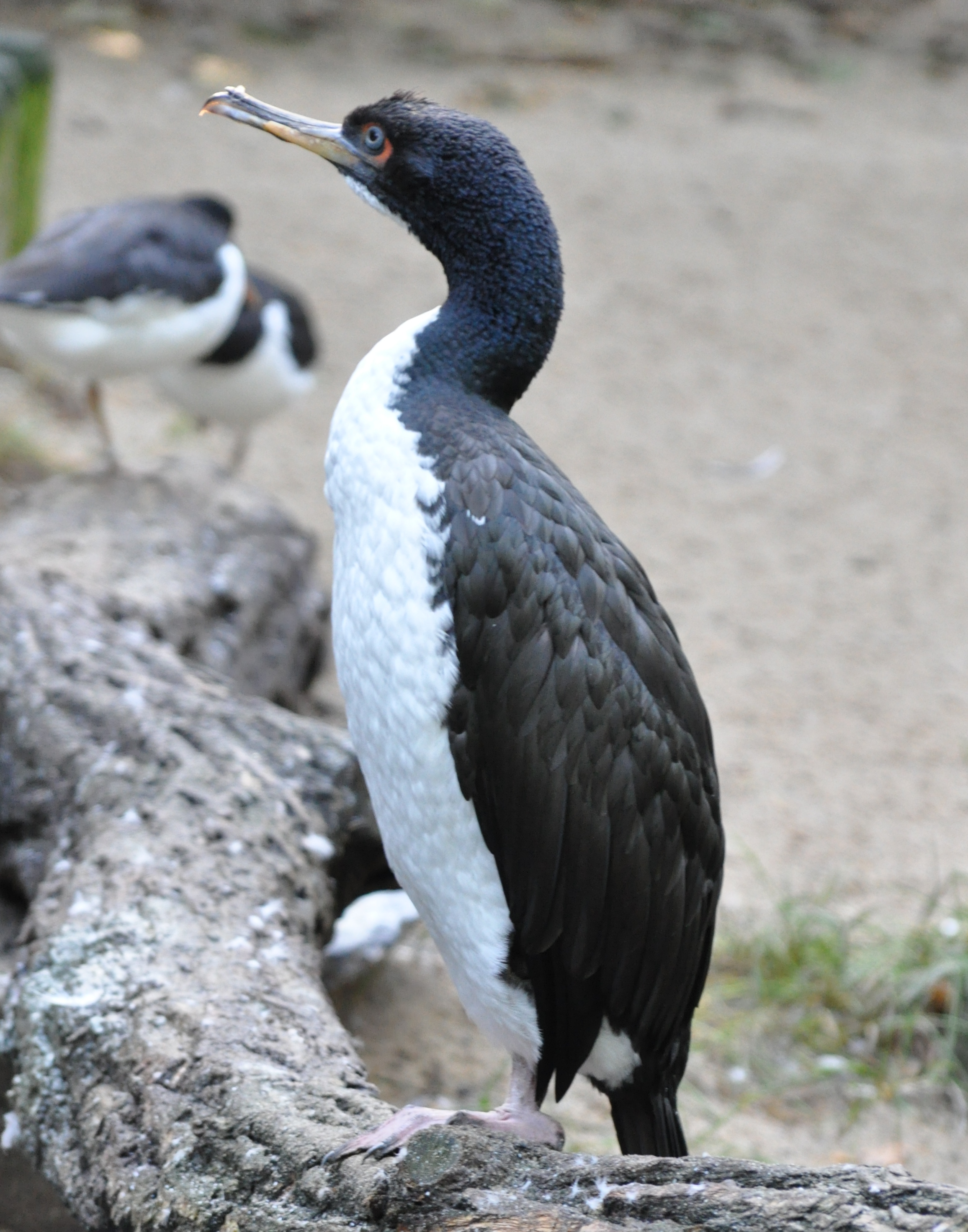 Guanay Cormorant (Phalacrocorax bougainvillii) in the Walsrode Bird Park, Germany.